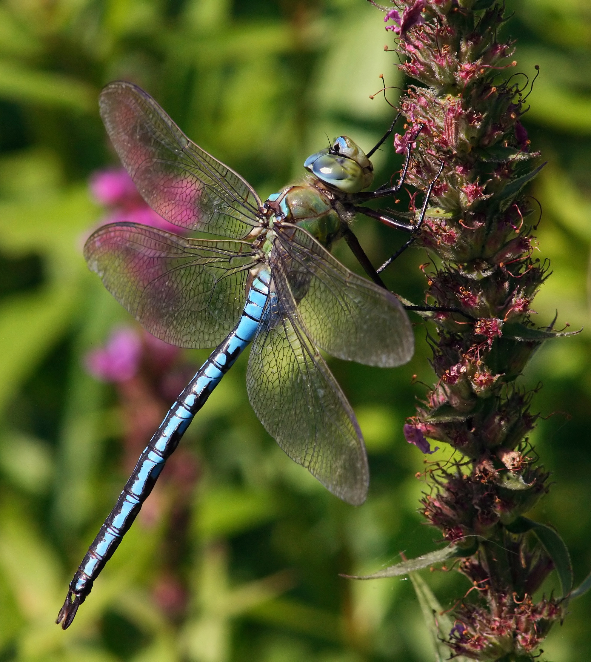 Male Emperor (Anax imperator) in Planten un Blomen, Hamburg, Germany